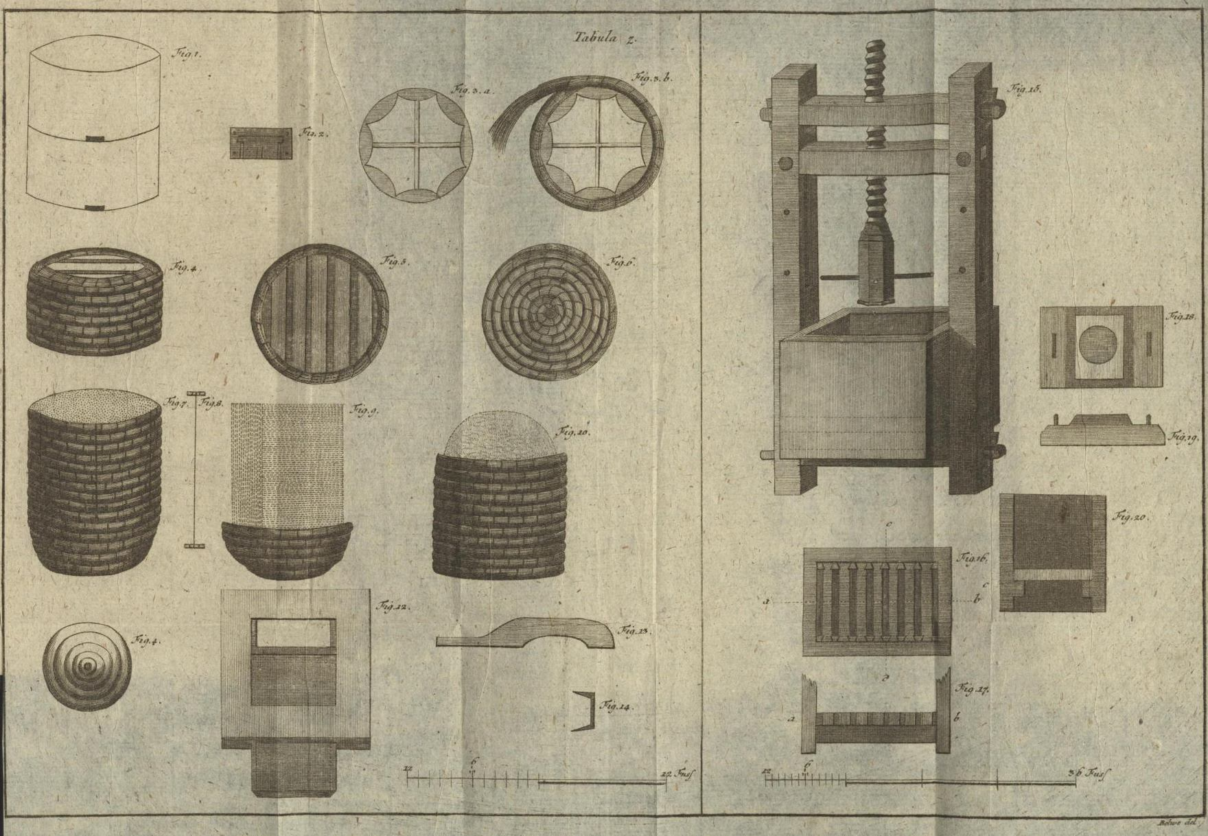 Ramdohr Johann Christian (1812) Magazin-Bienen-Behandlung Tabula 2, showing devices for beekeeping